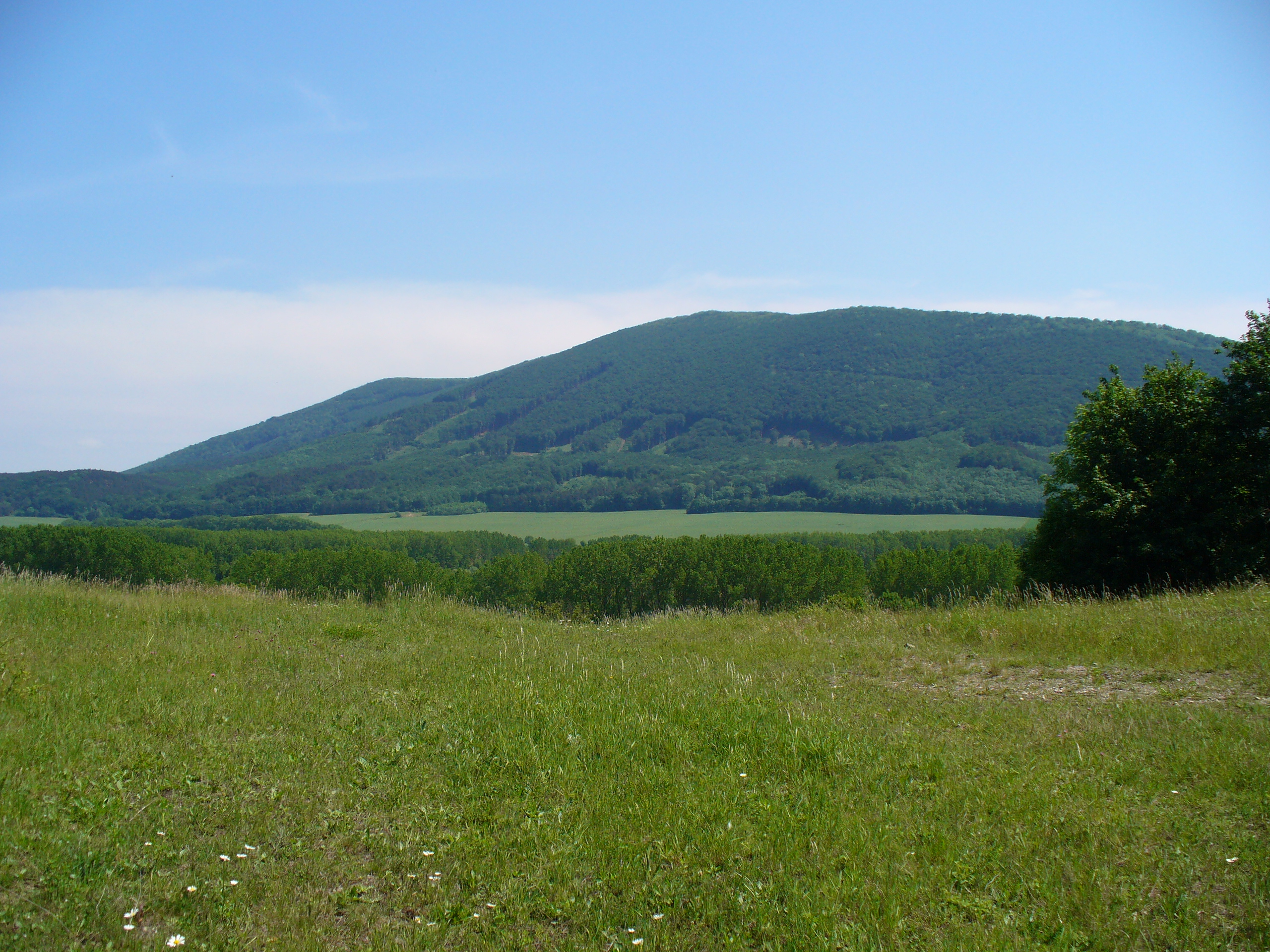 Záruby (on the right), highest hill in the Little Carpathians, Slovakia at 768 m